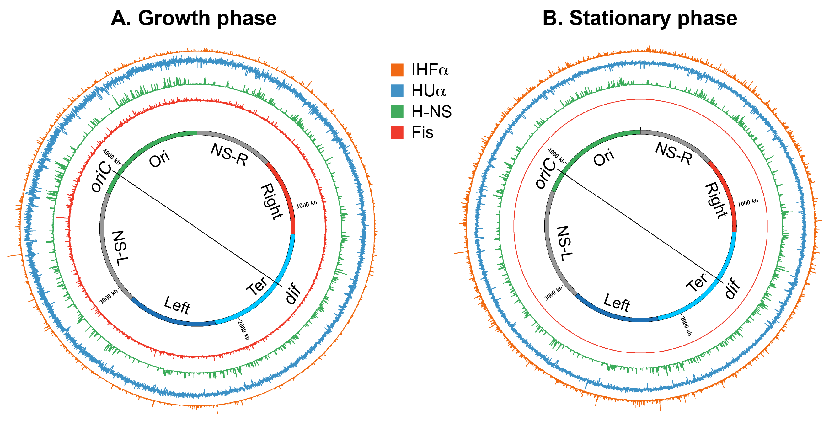 Genome-wide occupancy of nucleoid-associated proteins (NAPs) of E. coli. A circular layout of the E. coli genome as shown in File:Subhash_nucleoid_01.png additionally depicting genome-wide occupancy of NAPs Fis, H-NS, HU, and IHF in growth and stationary phases in E. coli. Histogram plots of the genome occupancy of NAPs as determined by chromatin-immunoprecipitation coupled with DNA sequencing (ChIP-seq) are shown outside the circular genome. The bin size of the histograms is 300 bp. The figure was prepared in circos/0.69-6 using the ChIP-Seq data from.